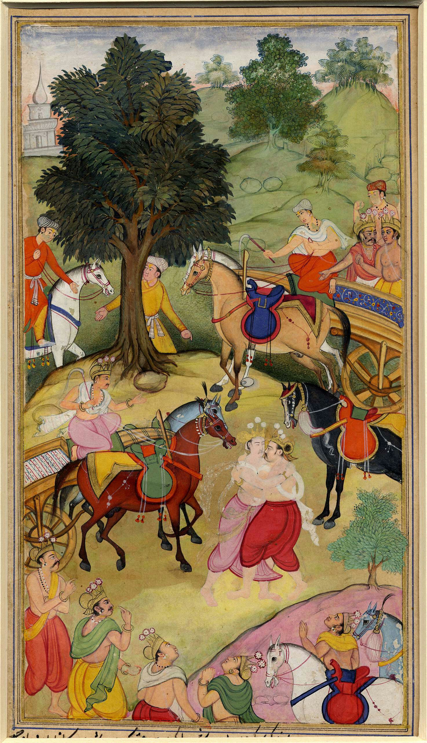 Painting illustrating Yudishthira wrestling with Karna, from the epic Razmnameh. Originally in manuscript dated 1007H (1598). Both men, stripped to the waist and standing, embrace one another in this traditional form of wrestling. Two chariots stand on either side while attendents await in the foreground. A hilly landscape with single tree compose the background. No text. Painted in opaque watercolour and ink on paper. Yudishthira, the eldest of the five Pandava brothers, and Karna, his bastard half brother, wrestle in the traditional way, stripped to the waist and standing. This artist has created an archaic mood in his picture by including only bows and arrows and no 'modern' armour. By the 1590s Akbar had assembled a large atelier of artists who illustrated the numerous historical, epic and poetical texts written and translated at the emperor's behest. The Razmnameh is the Persian abridged translation of the Mahabharata. The pale green ground and painterly treatment of foliage charaterise the numerous dispersed illustrations of the Razmnameh.